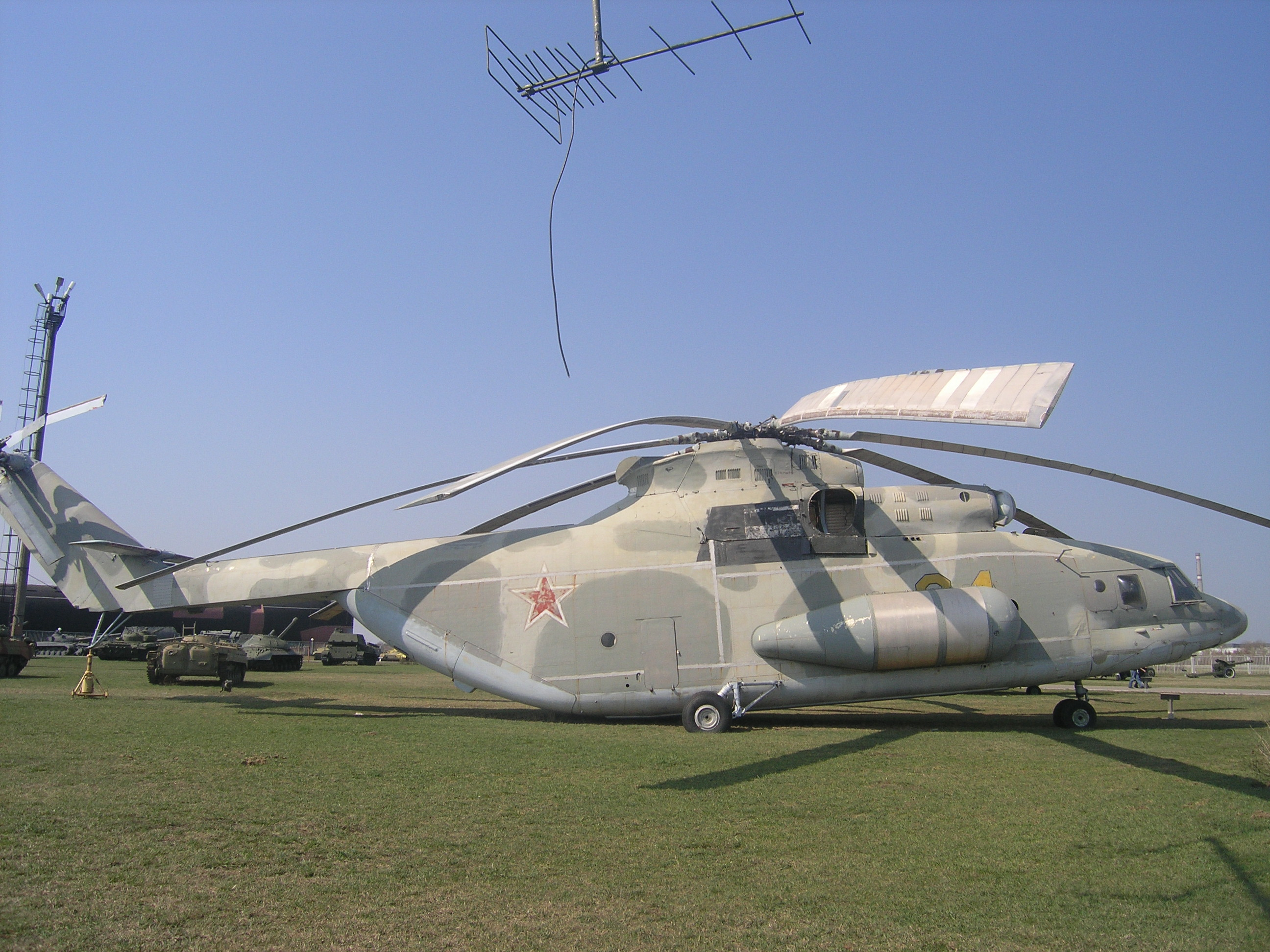 Mi-26, technical museum, Togliatti, Russia